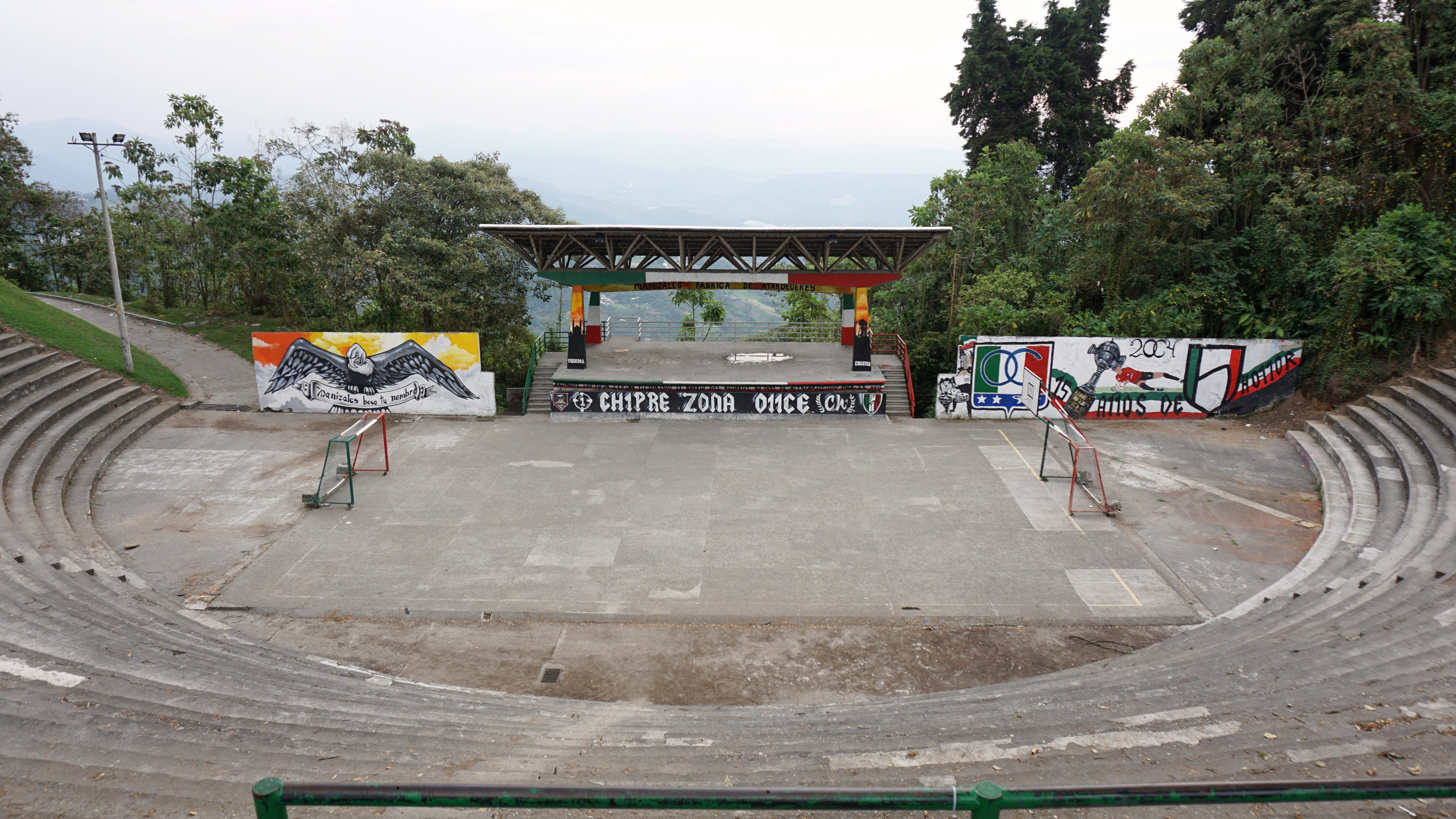 Media Torta de Chipre, Manizales